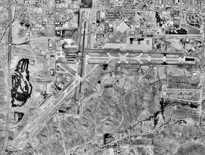 Kirland AFB NM 6 Oct 1996